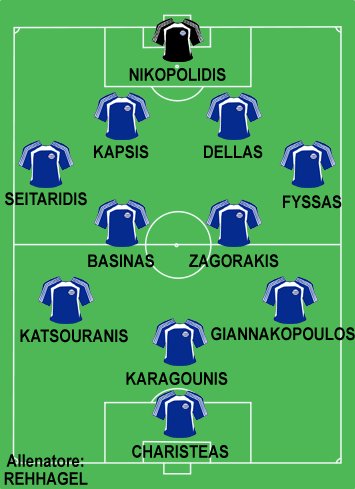 Lineup of the Greek national football team, European champions in 2004